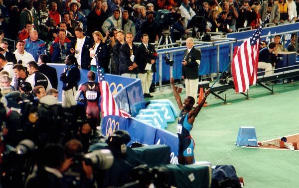 Michael_Johnson_victory_sydney_2000 olympics